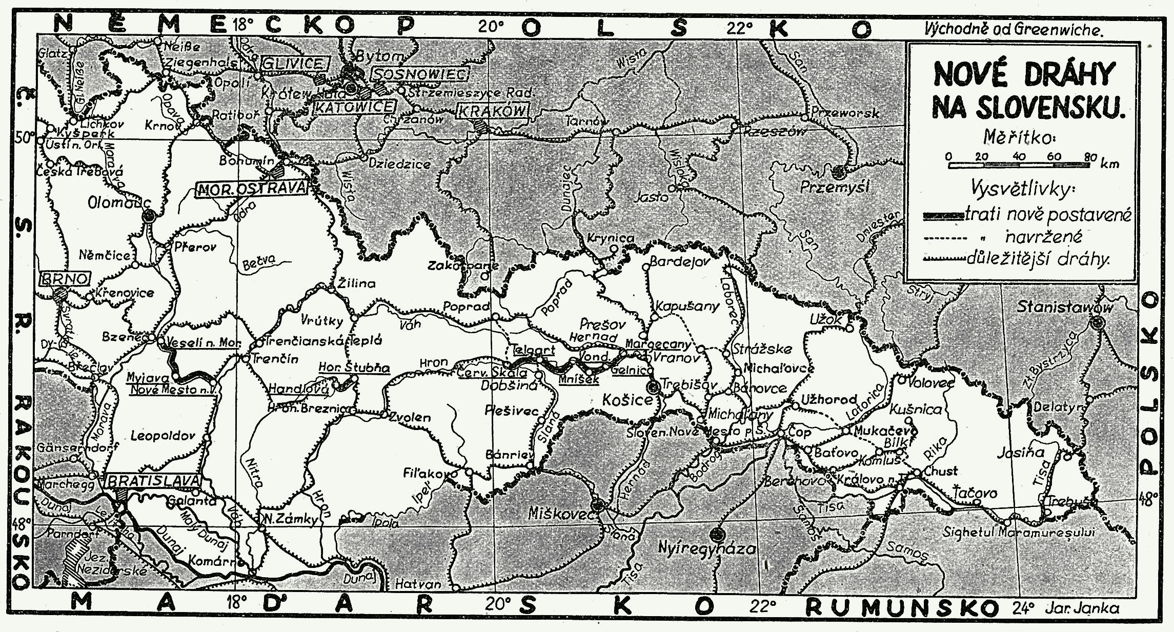 New railways in Slovakia in 1932. The descriptions are in Czech.